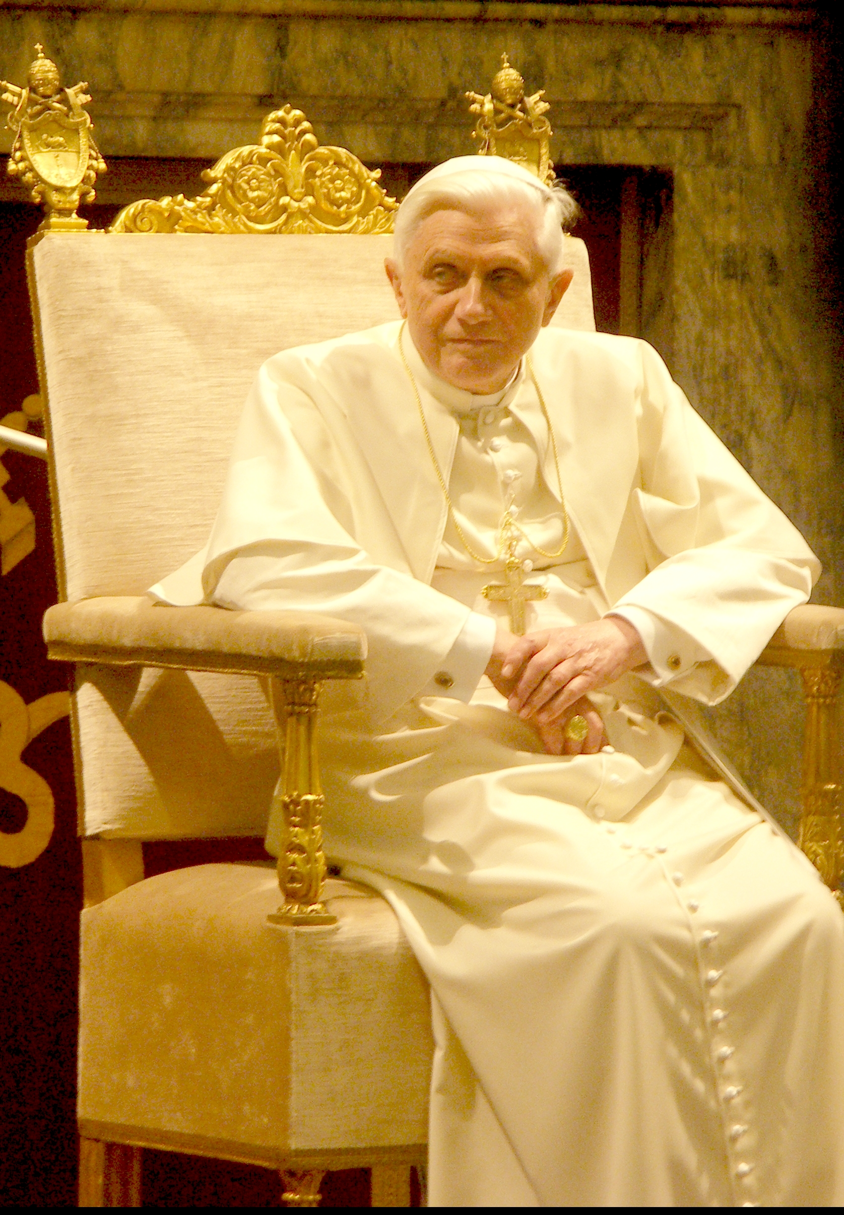 Pope Benedictus XVI at a private audience (January 20, 2006)